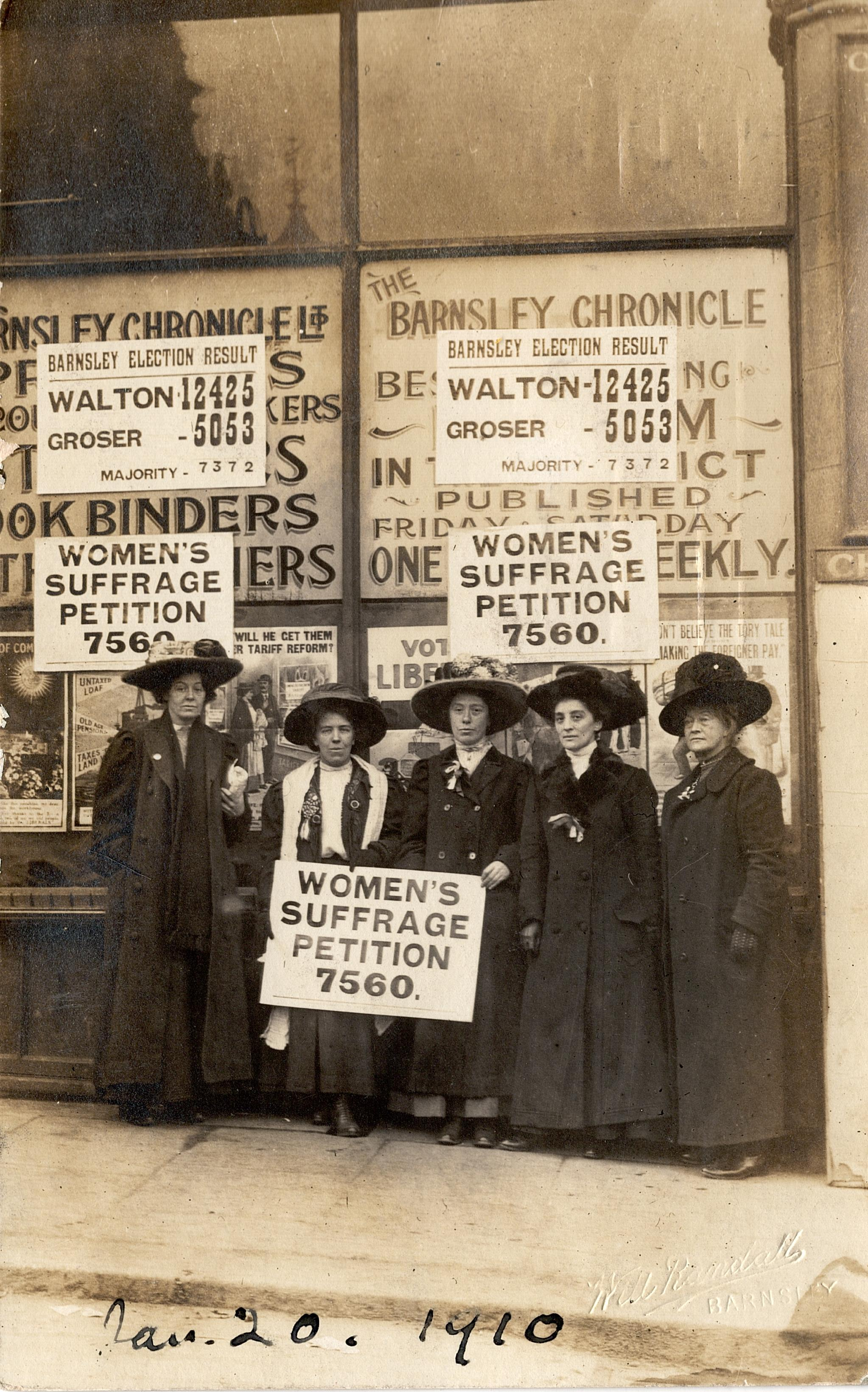 Miss AJ Embleton, Miss O Royston, Miss C Wray, Miss M Fielden and Miss E Ford, photographed outside the offices of the Barnsley Chronicle, 20 January 1910. TWL.2000.80